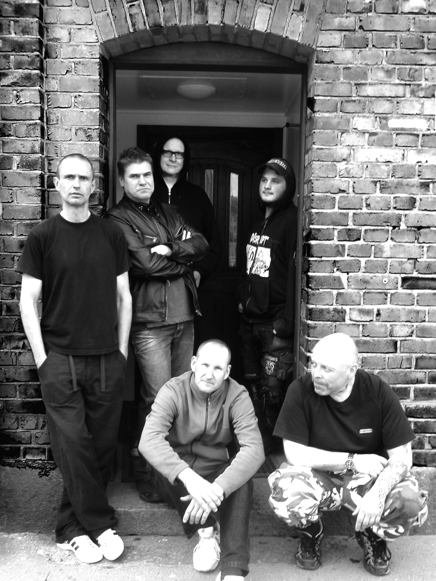 E.A.T.E.R. - Ernst And The Edsholm Rebels